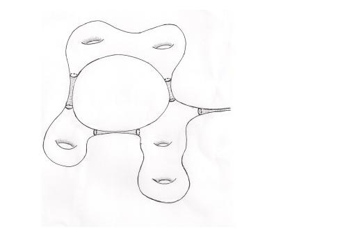 Thic-Thin decomposition of a finite-volume manifold..